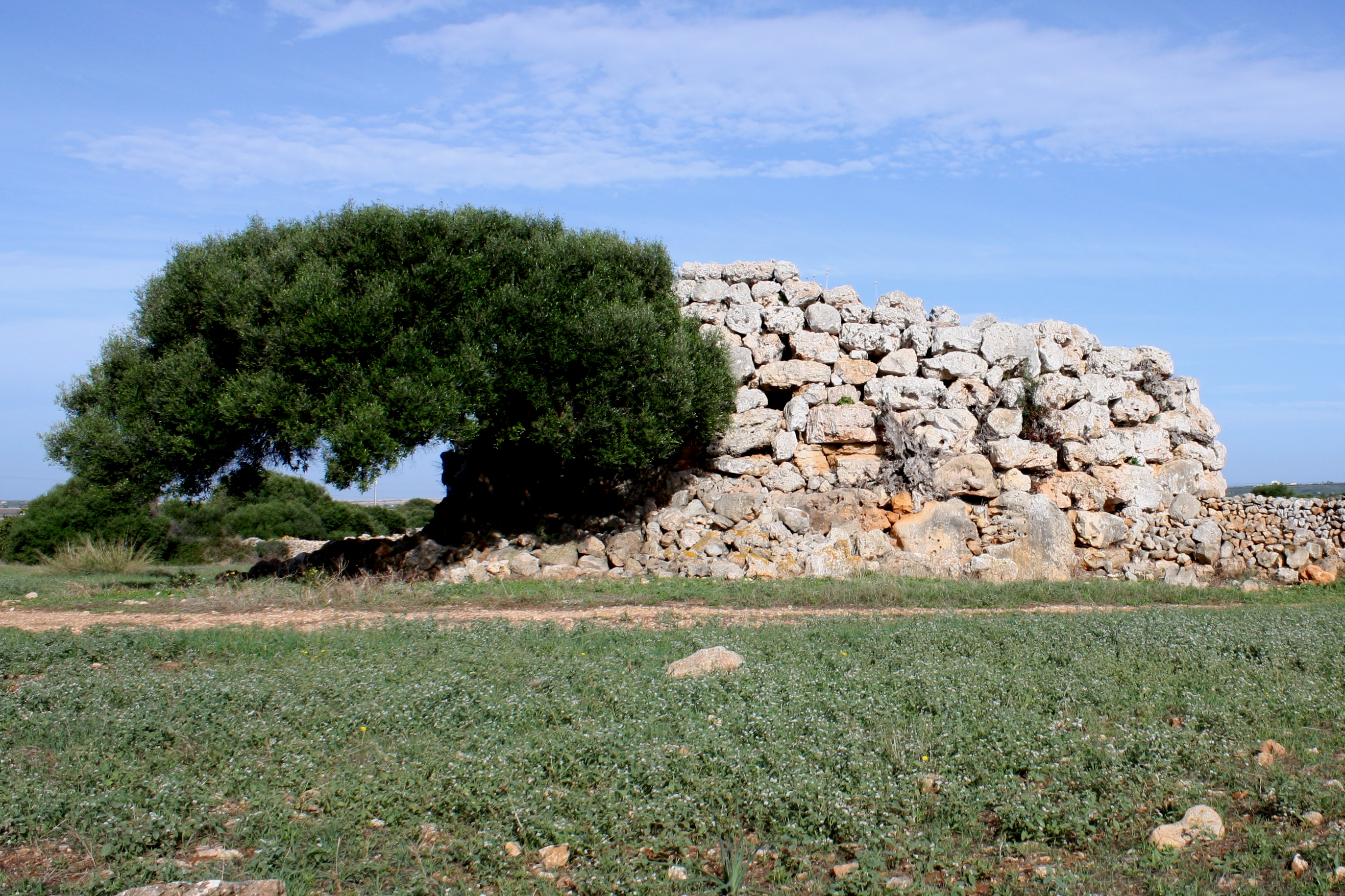 South-eastern talayot of Montefí talayotic settlement, Ciutadella, Minorca.